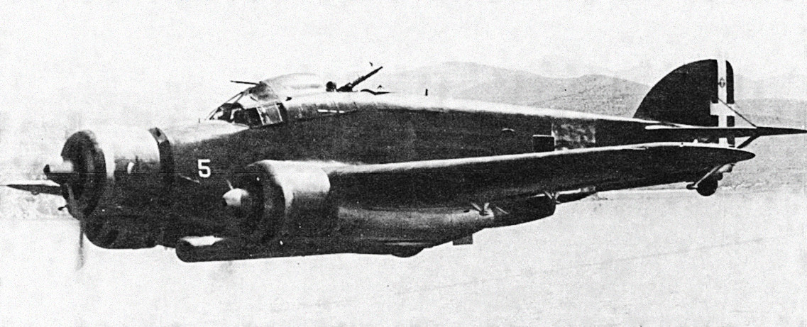 Italian Savoia-Marchetti SM.79 torpedo bomber